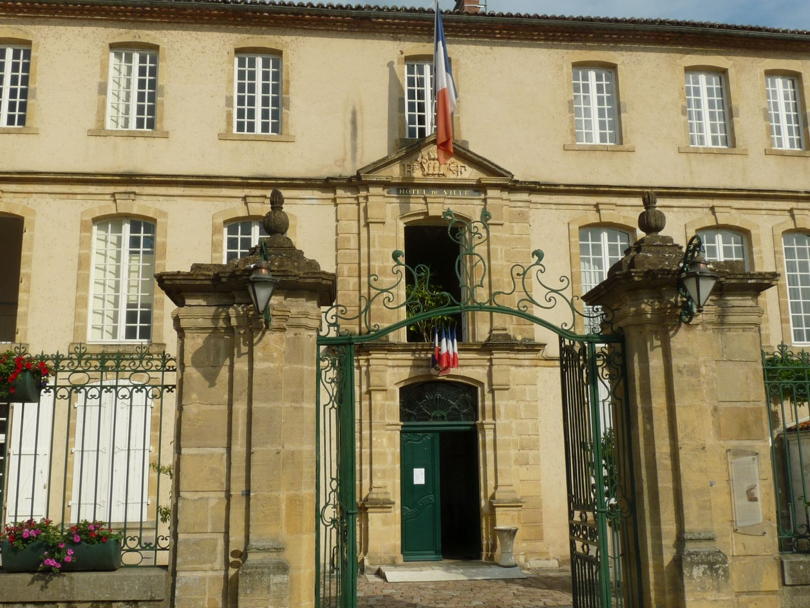 town hall